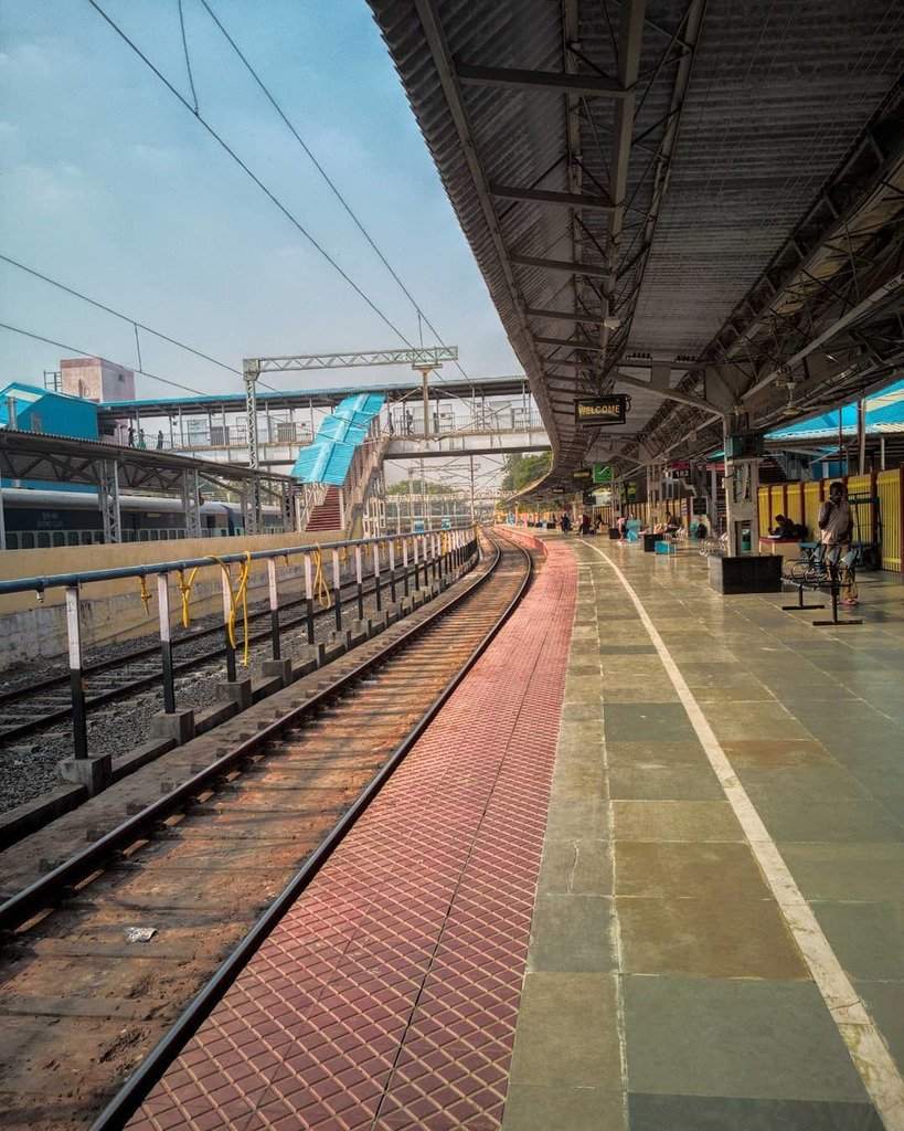 Salem railway station clean platform